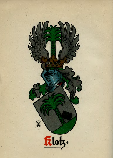 Coat of Arms of the Klotz Familie